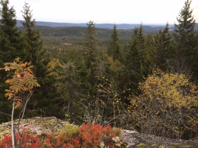 Skinnskattberget in Nordmarka, Oslo. Foto by uploaders wife, Siv Bjørklid